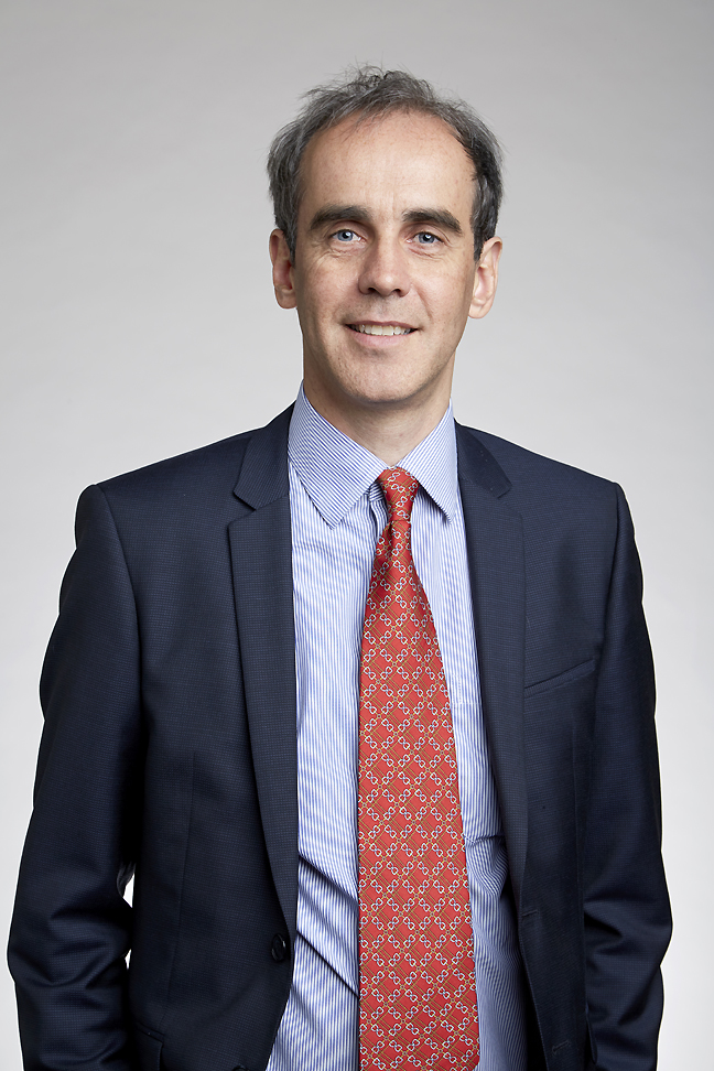 Gavin Salam FRS is a theoretical particle physicist and a senior member of staff at CERN in Geneva where his research investigates the strong interaction of Quantum Chromodynamics (QCD), the theory of quarks and gluons. Attribution: The Royal Society